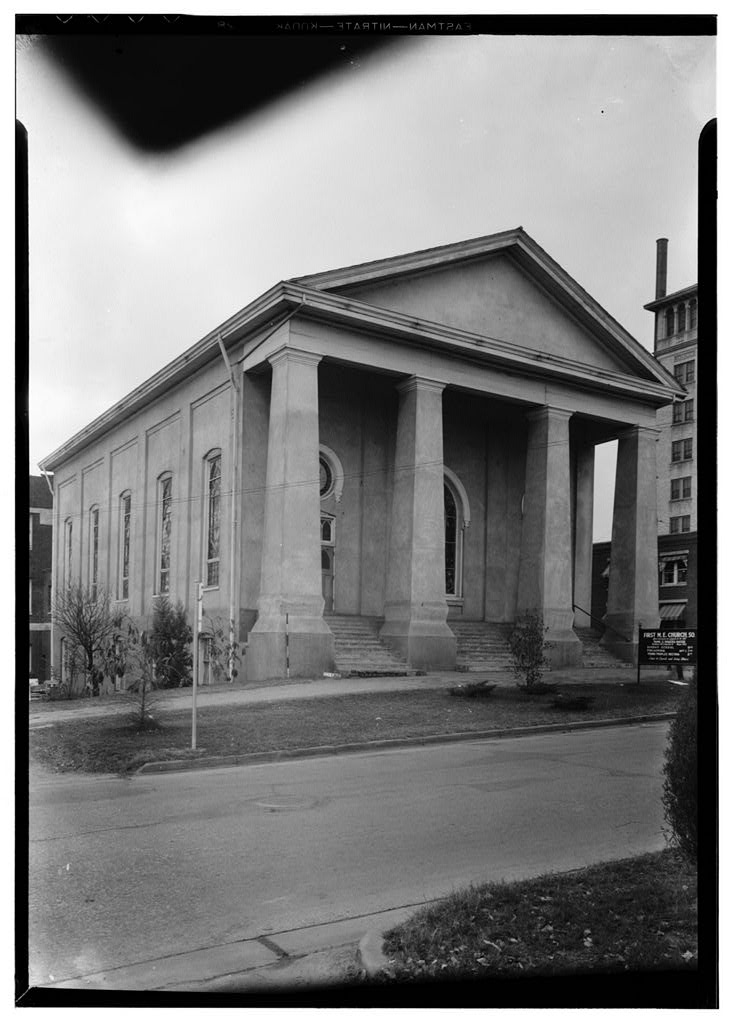 First Methodist Church (Marshall, Texas). Listed on the national Register of Historic Places. Historic American Buildings Survey—HABS image.